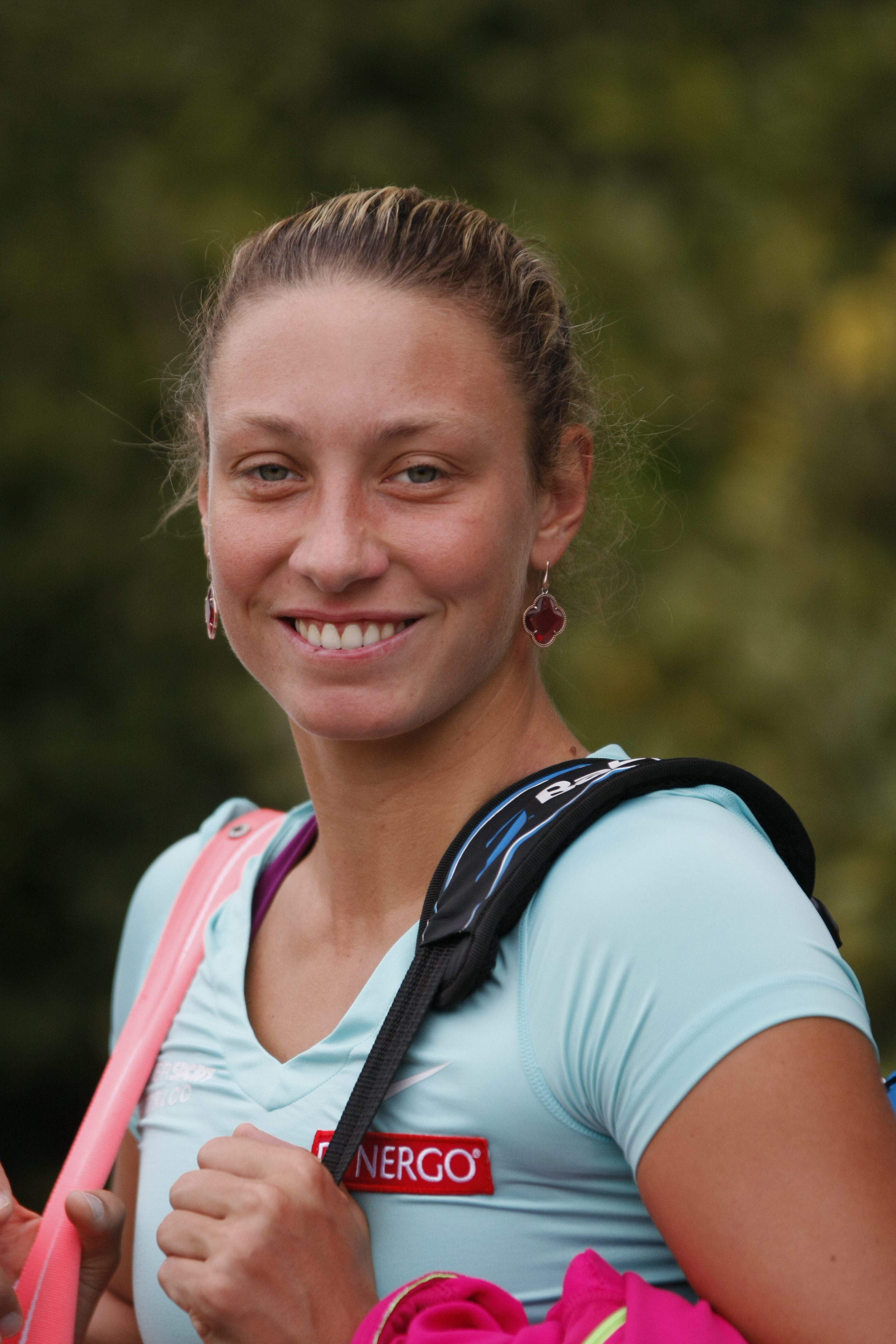 Aegon International Tennis, Devonshire Park, Eastbourne June 2015